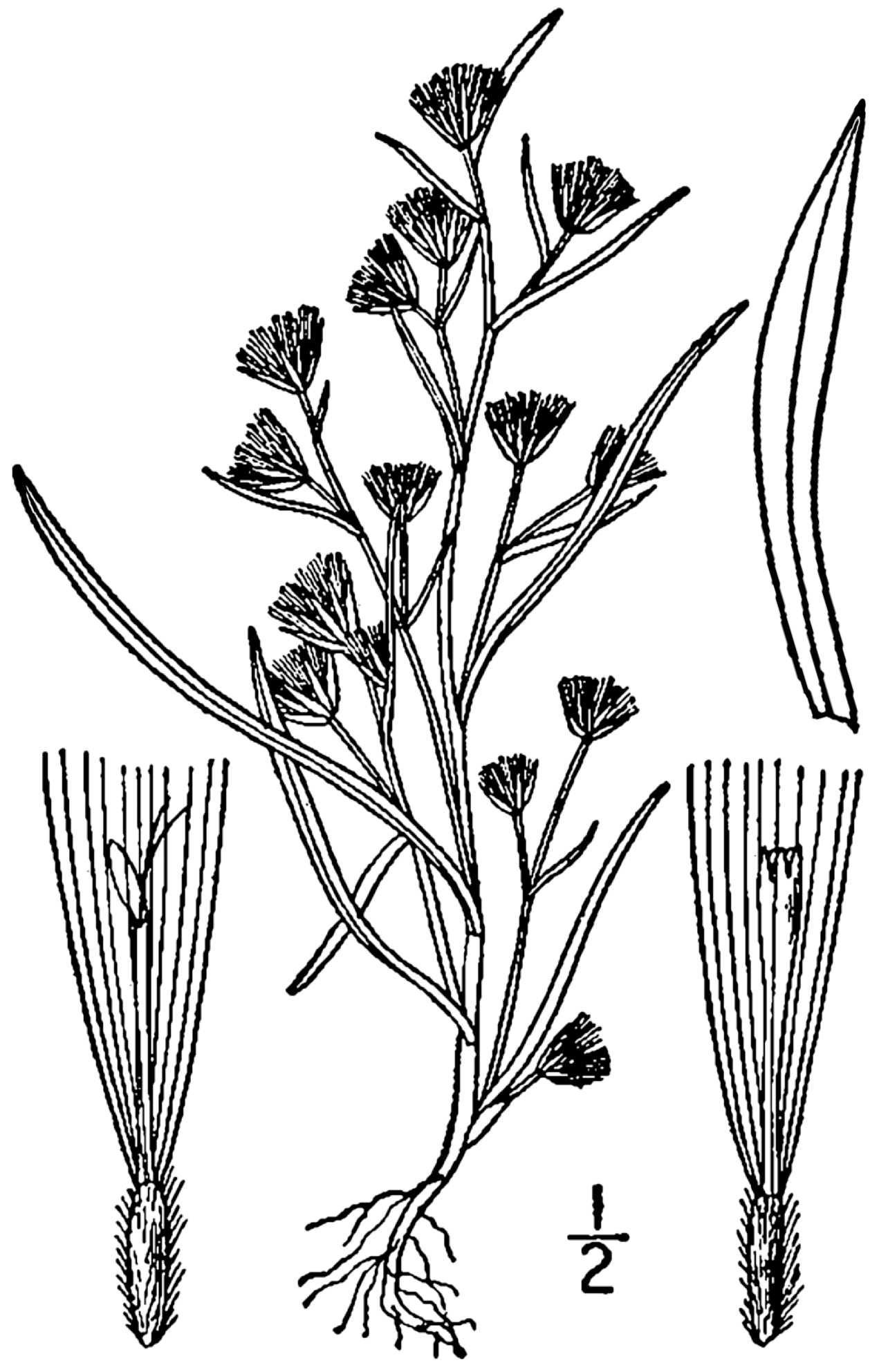 Symphyotrichum ciliatum (Ledeb.) G.L. Nesom (rayless alkali aster)